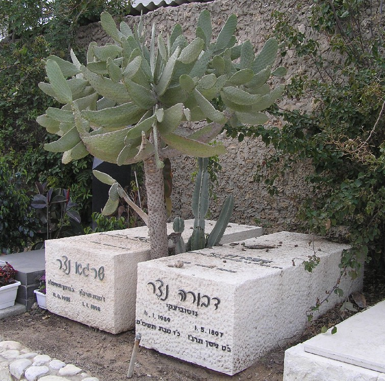 Tombs of Dvora and Shraga Netzer in Trumpeldor cemetery in Tel Aviv February 2006, by Eman